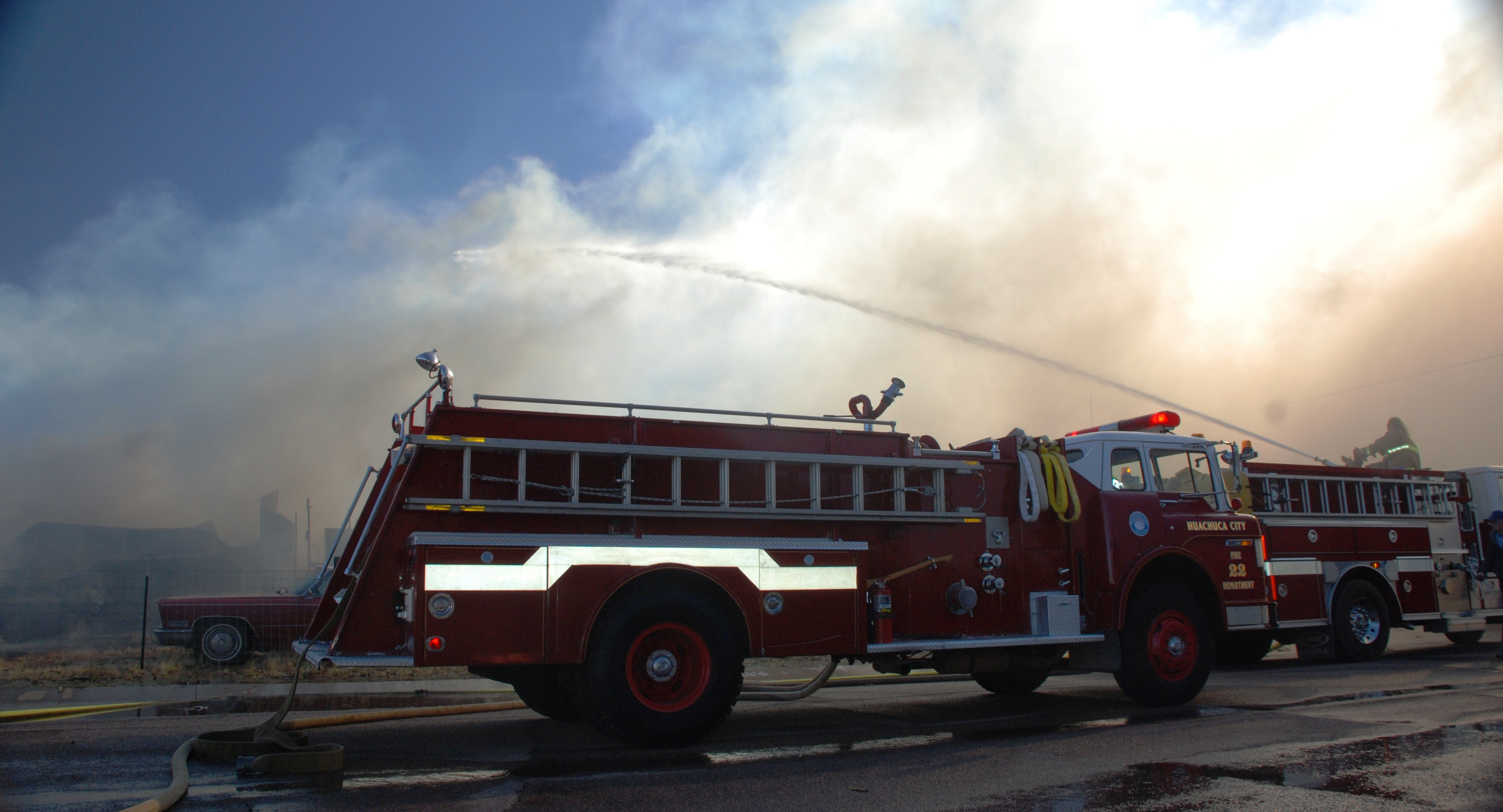 Firefighters fighting a file in Huachuca City, Arizona